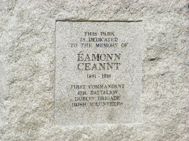 Éamonn Ceannt Memorial Close-Up